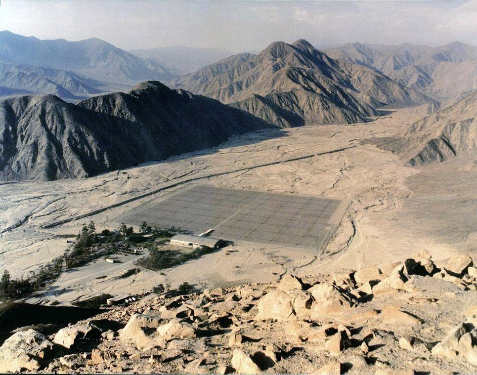 JRO